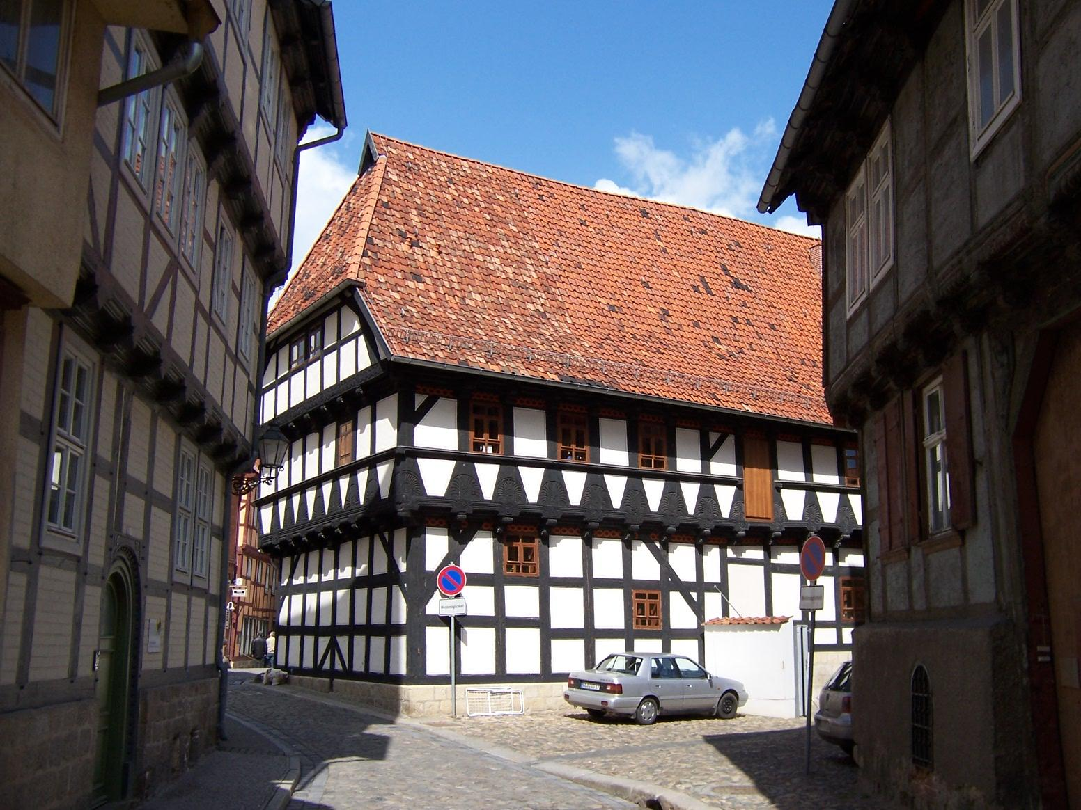 half-timbered houses in Quedlinburg, Saxony-Anhalt (Germany)